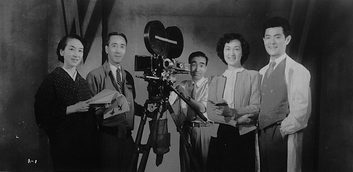 F-r, actress Hikoro Kawasaki, director Heinosuke Gosho (1902–81), cinematographer Mitsuo Miura, actress Keiko Sawamura, and actor Yōichi Numata, pausing for studio still for the 1951 Shin-Tōhō motion picture Wakare Gumo